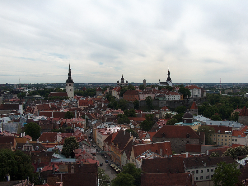 Vanalinn ja Toompea